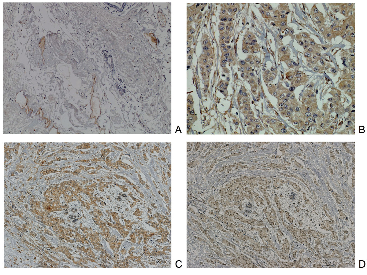 Neuropilin-2 (Nrp2) expression in normal breast and breast carcinoma tissue. (A) Nrp2 staining was observed in blood or lymph vessels. There was no staining in normal breast epithelium. (×100). (B) In cancer tissue, staining of the Nrp2 protein was identified not only in the vascular endothelial cells, but also in the cytoplasm of cancer cells. Almost all invasive cells were immunopositive for Nrp2. (×200). (C-D) Co-localized expression of Nrp2 (C) and CXCR4 (D) using serial sections of breast carcinoma tissue. (×100). Yasuoka et al. BMC Cancer 2009 9:220